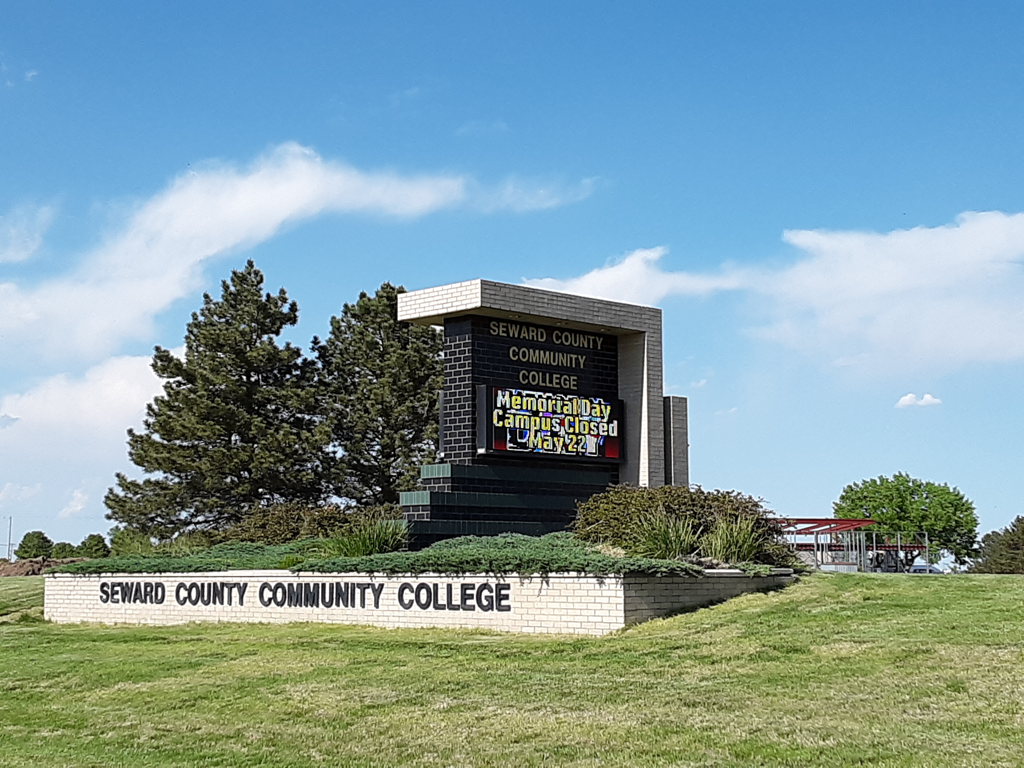 File:SCCC Main Entrance.jpg